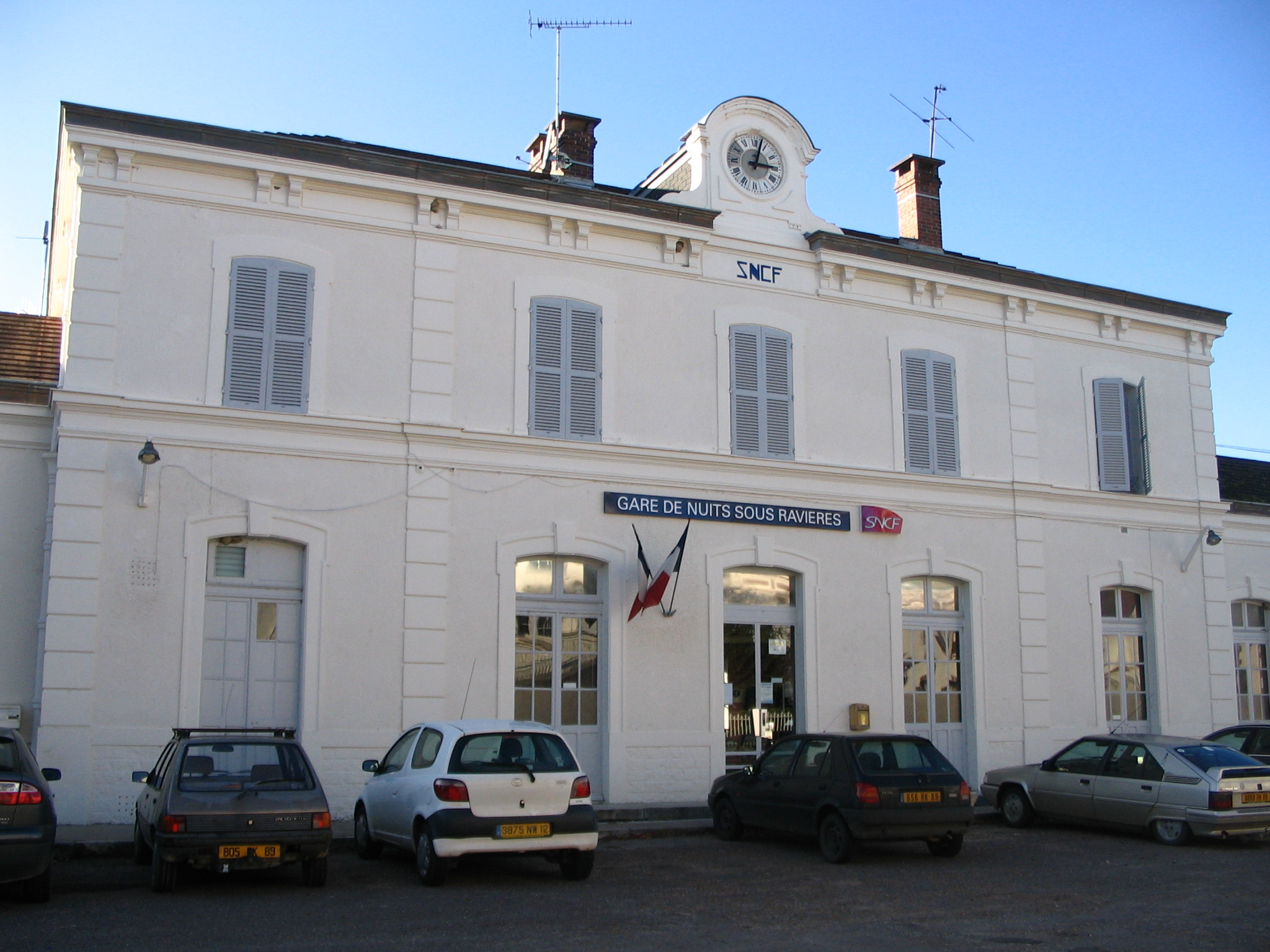 The train station of Nuits, Yonne, France.